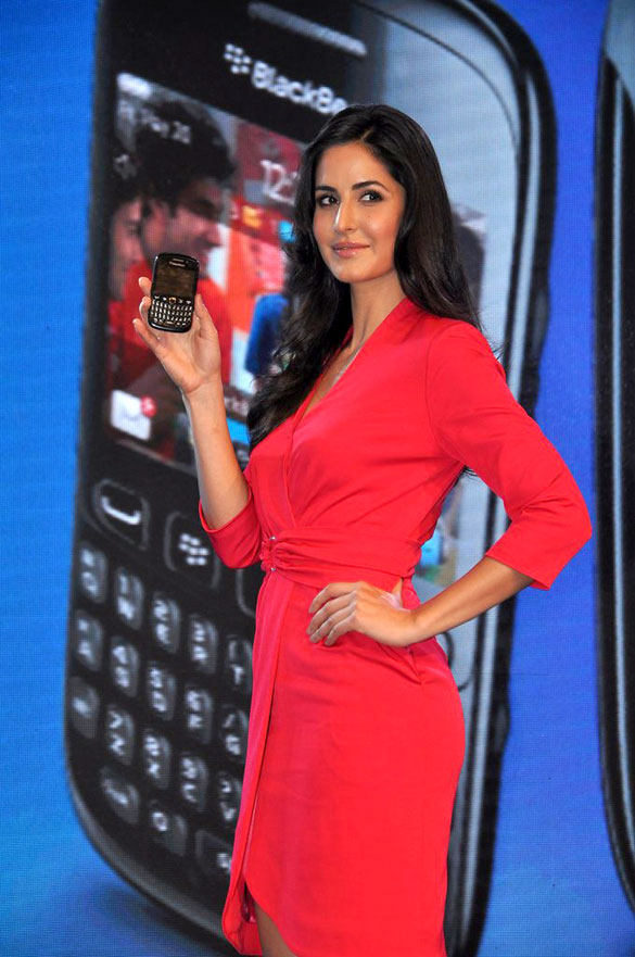 Katrina Kaif unveils the new Blackberry curve